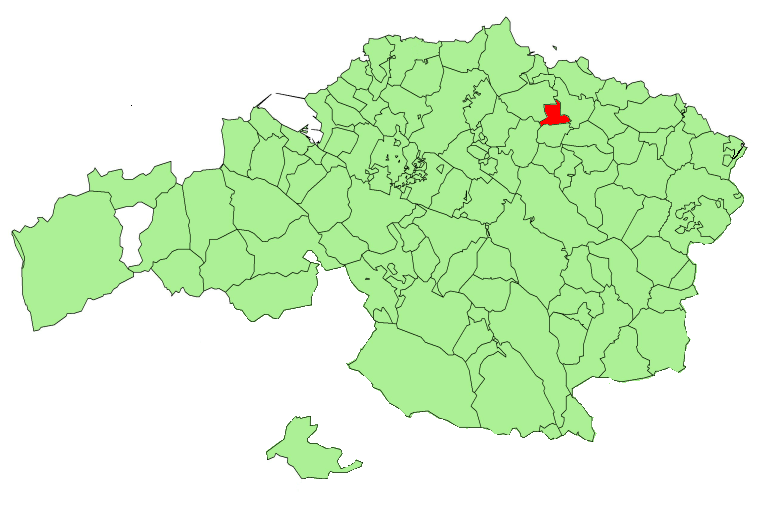 Murueta municipality in the province of Biscay